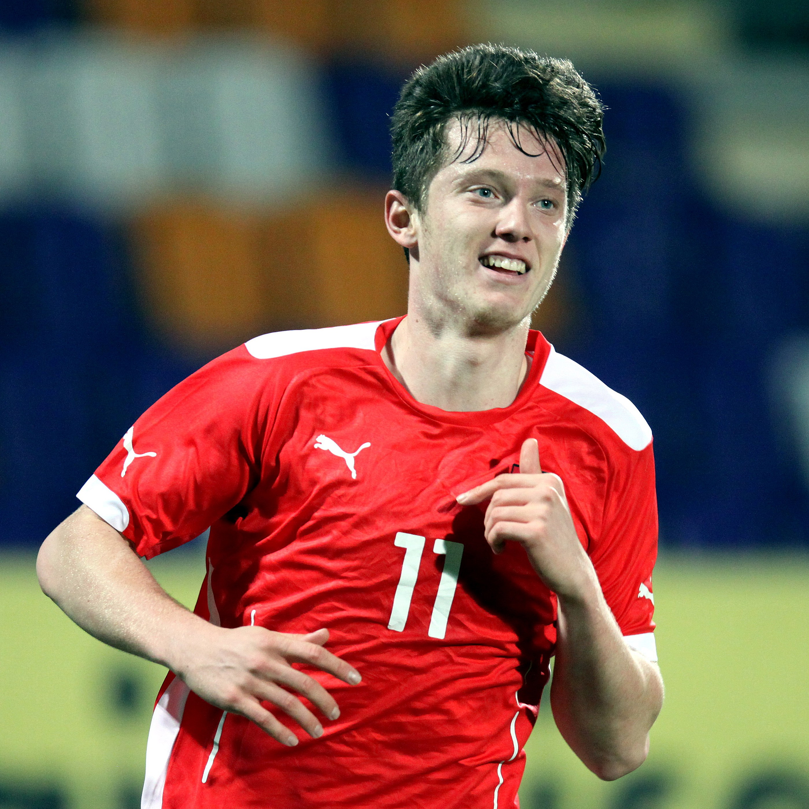 2017 UEFA European Under-21 Championship qualification – Austria U-21 (red shirts) vs. :en:Finland national under-21 football team |Finnland U-21 (blue shirts) 2-0 (0-0) – 2015-11-13 in Vienna, Austria Arena – The photo shows Michael Gregoritsch (after his goal for 1-0).